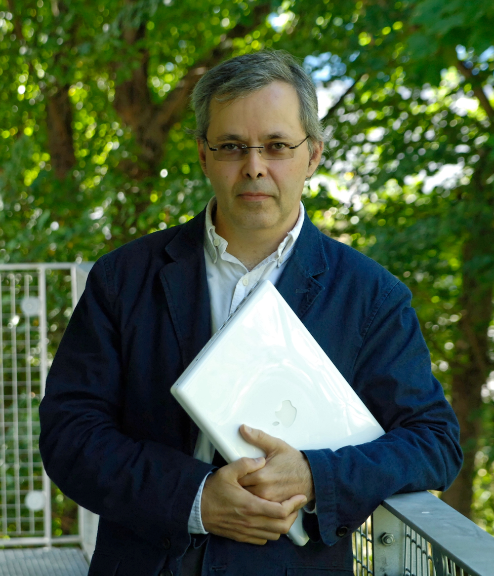 Alain Lefebvre at the offices of 6nergies at Technolac in 2007